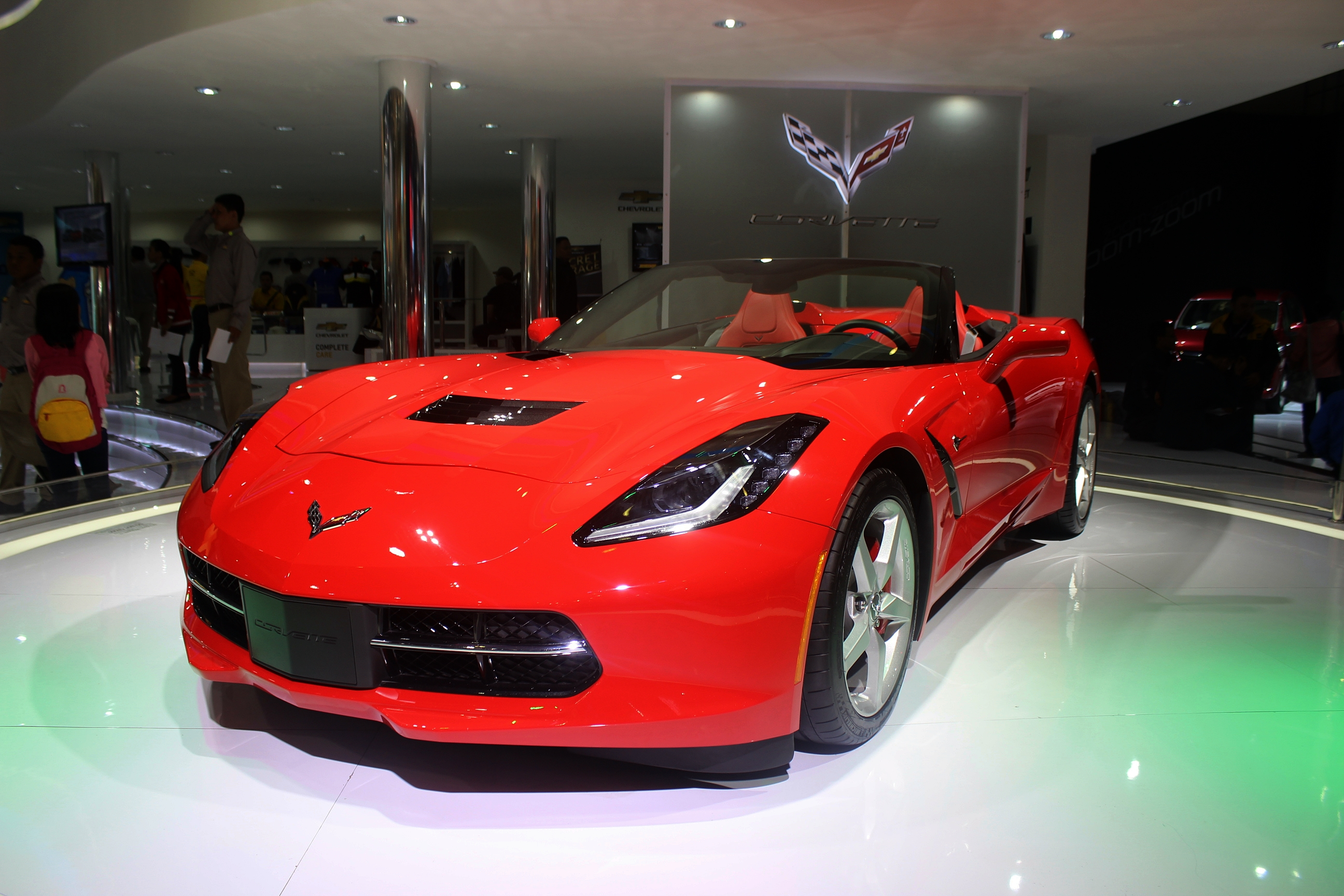 A Chevrolet Corvette C7 Stingray Convertible photographed in Indonesia International Motor Show 2014, Jakarta, Indonesia on September 27, 2014.